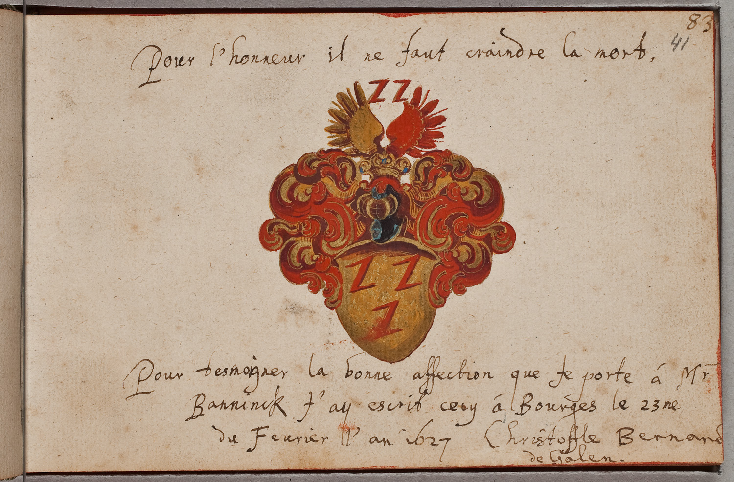 Album amicorum van Frans Banninck Cocq, f. 41r: Christoph Bernhard von Galen, Bourges 23 febr. 1627 Zie ook: Image uploaded on 02-10-2013 from the Flickr stream of the Royal Library, The Hague (Koninklijke Bibliotheek, KB, national library of the Netherlands)